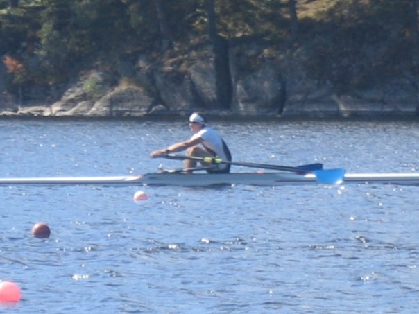 Single sculling in Sweden. Rowing.